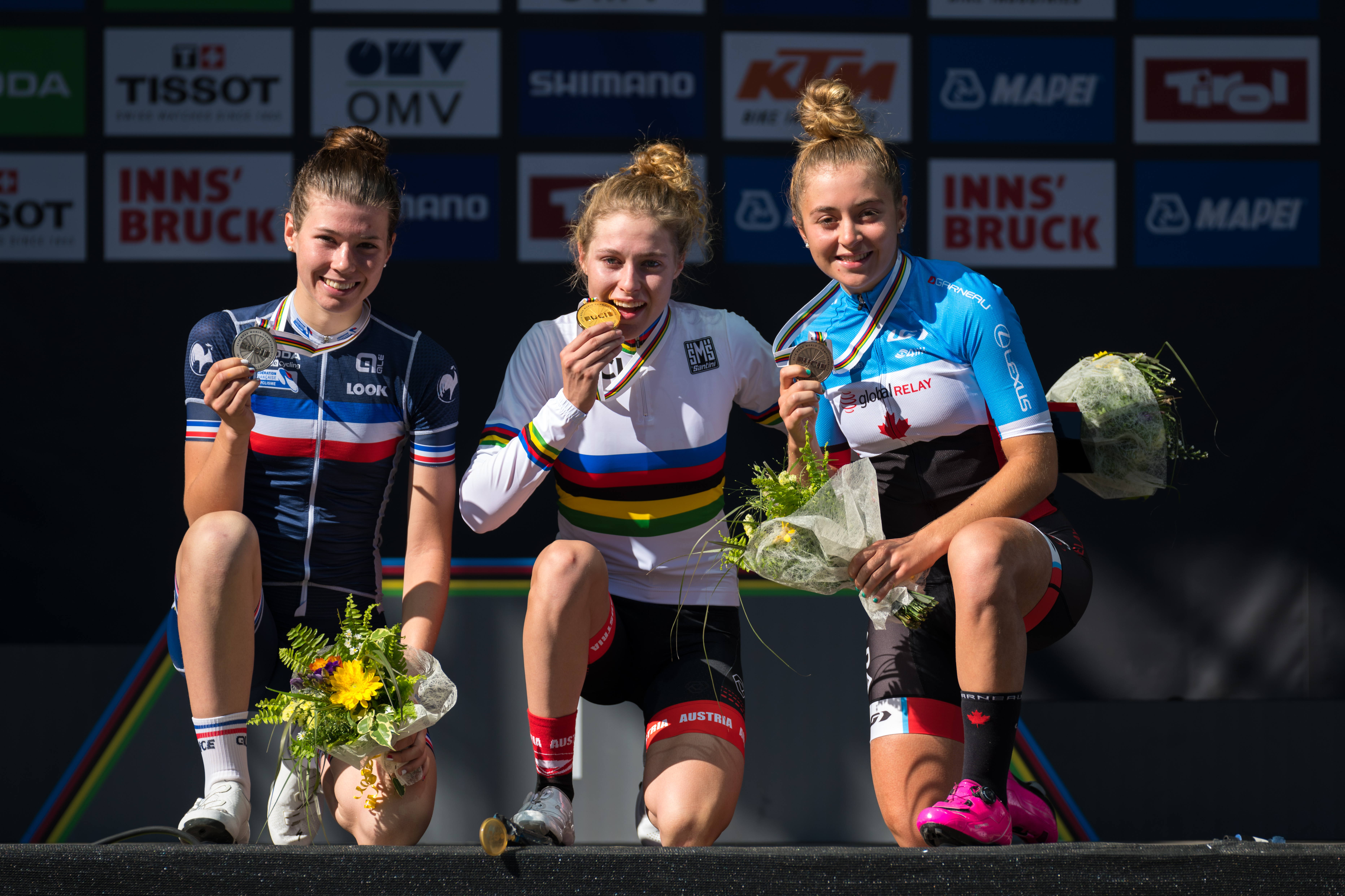 2018 UCI Road World Championships Innsbruck/Tirol Women Juniors Road Racel. Picture shows: Award Ceremony with Marie Le Net of France, winner Laura Stigger of Austria and Simone Boilard of Canada